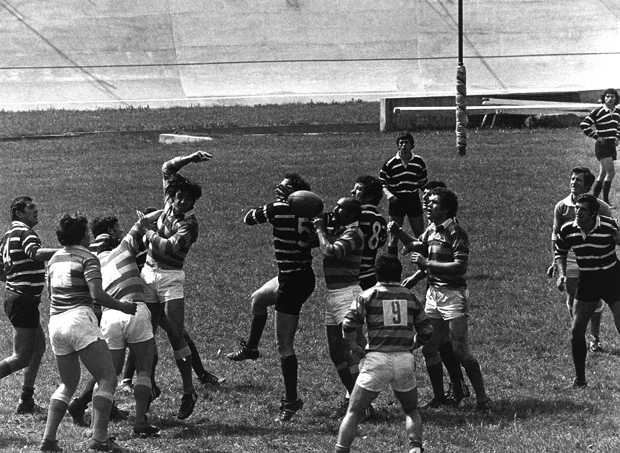 Rugby Torino - Rugby Roma, 1975-76 Italian rugby union championship